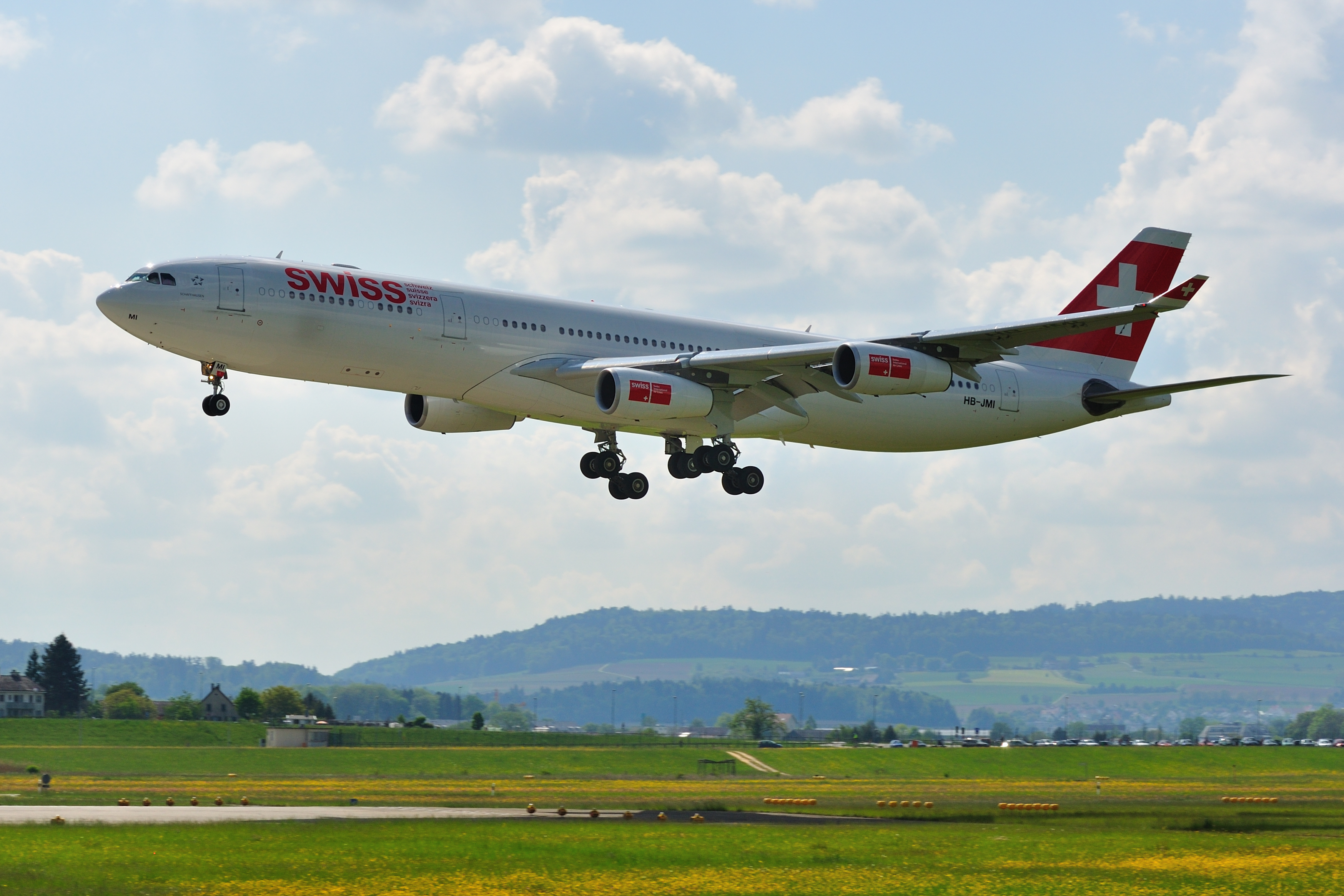 Switzerland, Canton of Zürich, spotting along runway 14 at Zurich International Airport